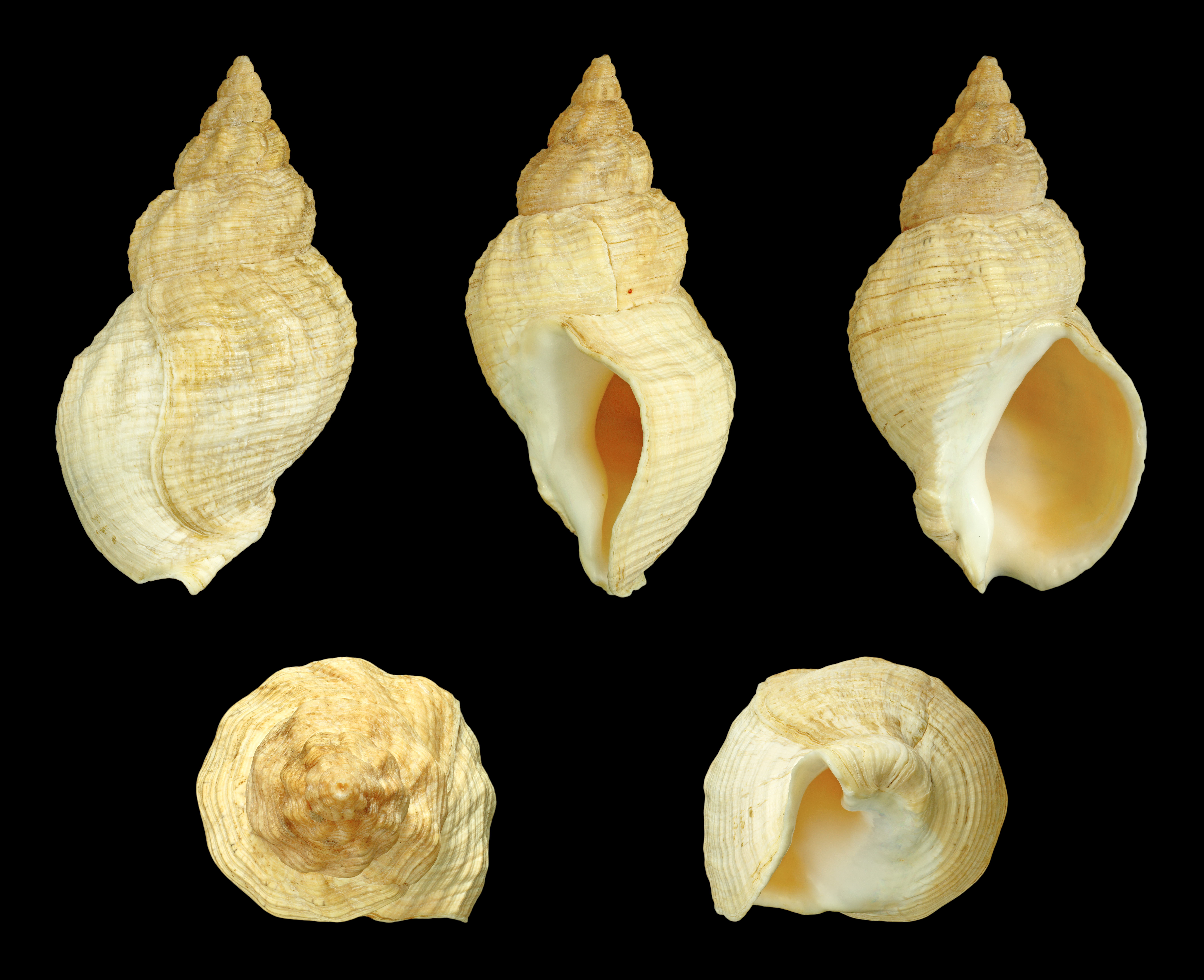 Common Whelk; Length 9.0 cm; Originating from Trouville-sur-Mer, Dept. Calvados, Basse-Normandie, France; Shell of own collection, therefore not geocoded. Dorsal, lateral (right side), ventral, back, and front view.